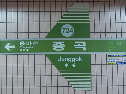 Junggok Station Commons:Category:Seoul Subway